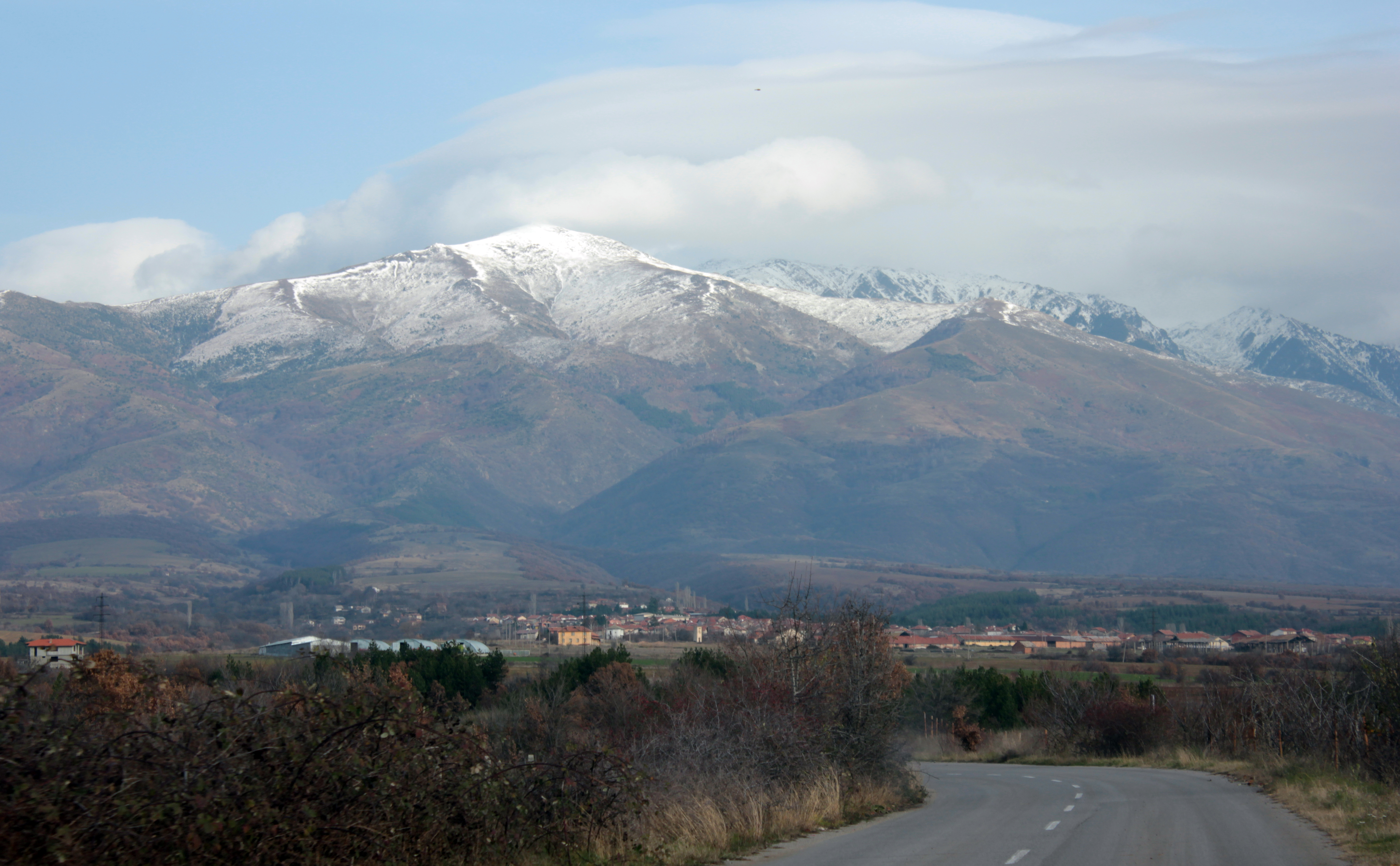 Smochevo village Surroundings